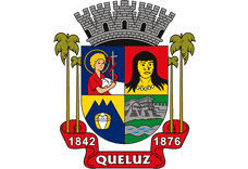 Coat of Arms of São Paulo's Queluz city, Brazil.